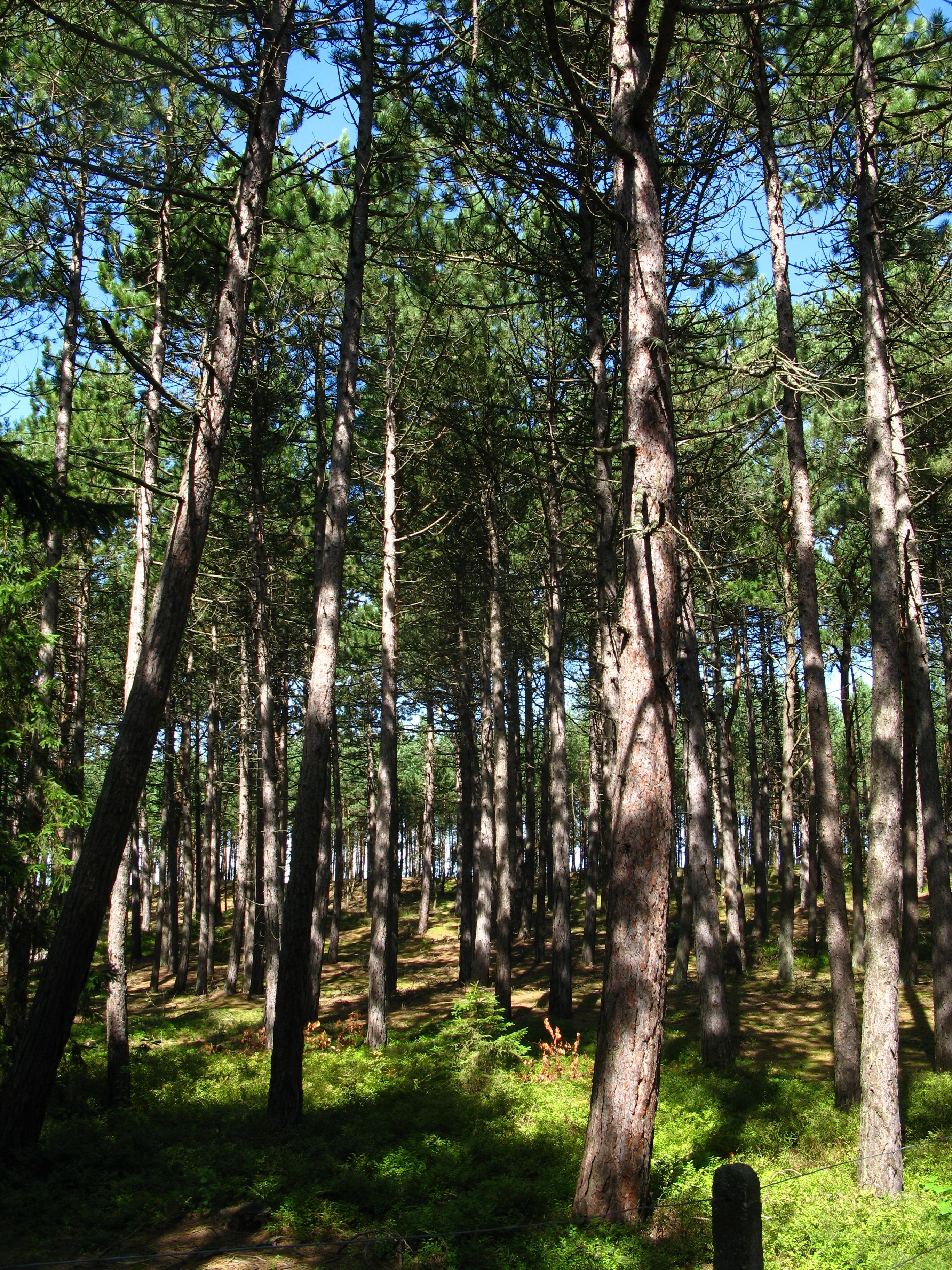 Pinus nigra forest in Łeba, Poland